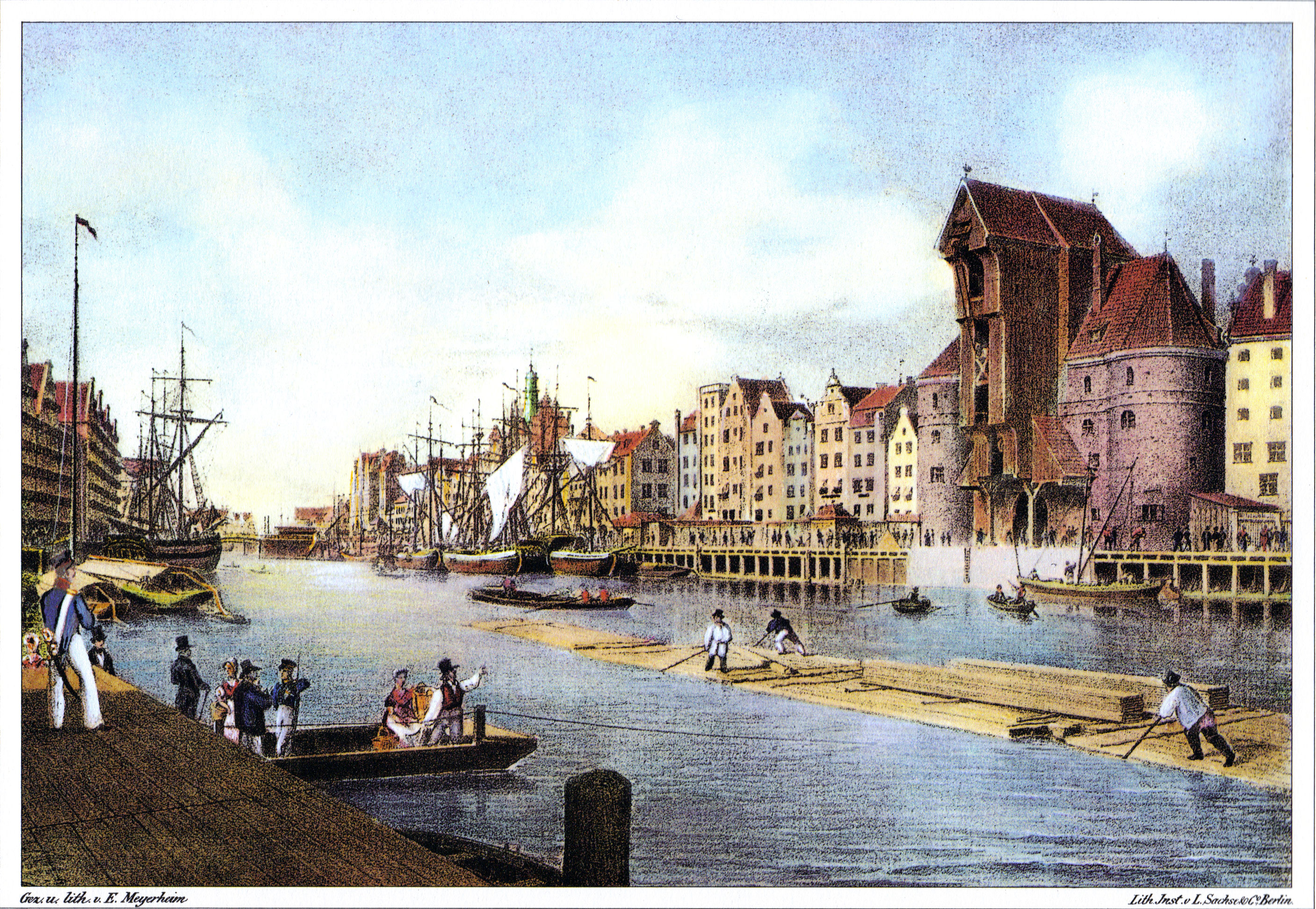 Żuraw Gate in Gdańsk, F. E. Meyerheim, 1850 Lange Brücke and Krahntor around 1850. Artist: Eduard Meyerheim